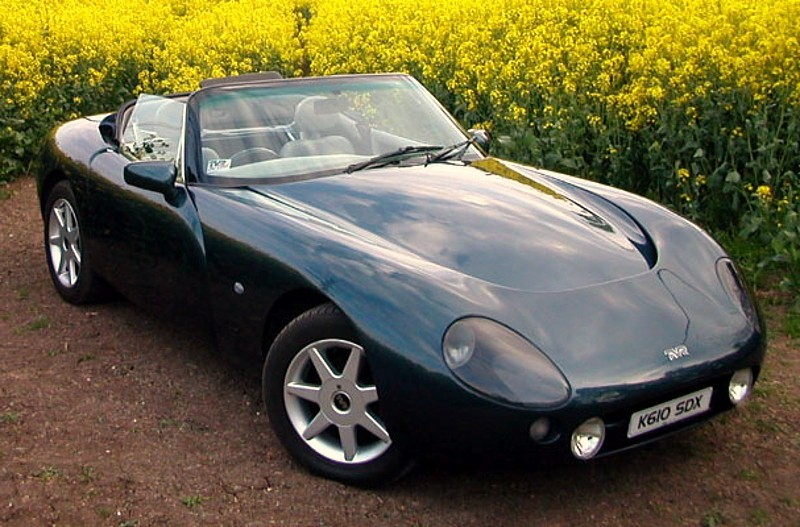 pre-cat Griffith.